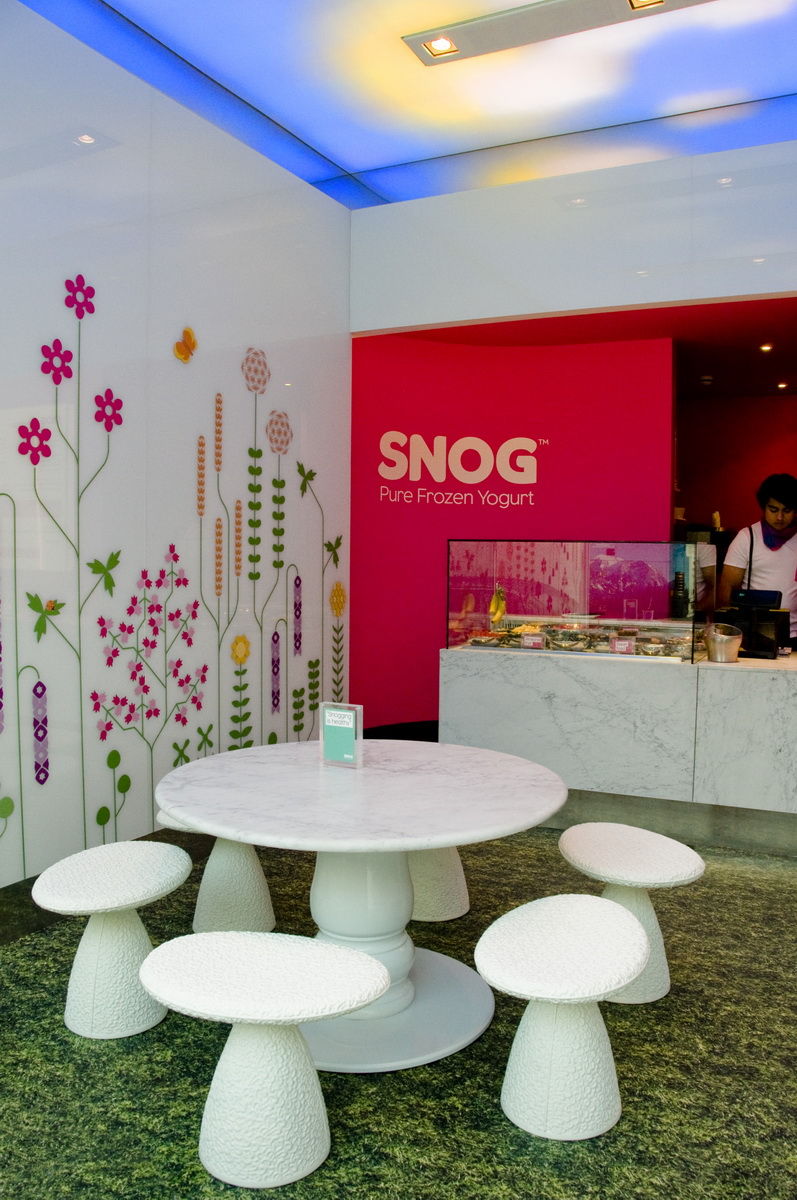 Interior view of the Snog Frozen Yogurt store, 32 Thurloe Place, South Kensington, London.